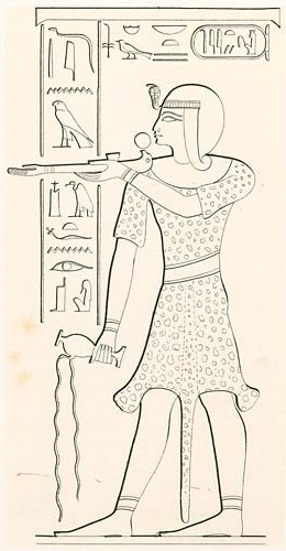 Queen Tyti of the ancient Egyptian 20th dynasty, dressed as a male Inmutef priest in her tomb QV52